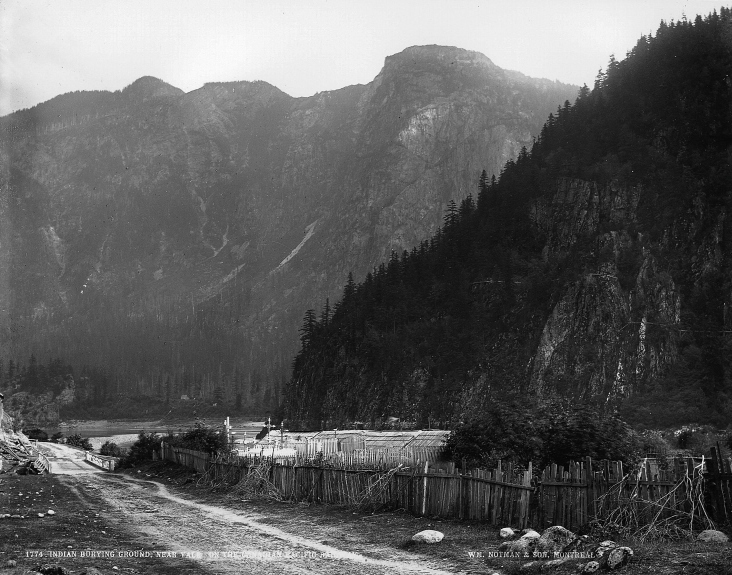 Photograph, Aboriginal burying ground, near Yale, BC, 1887, William McFarlane Notman, Silver salts, frosting on glass - Gelatin dry plate process - 20 x 25 cm